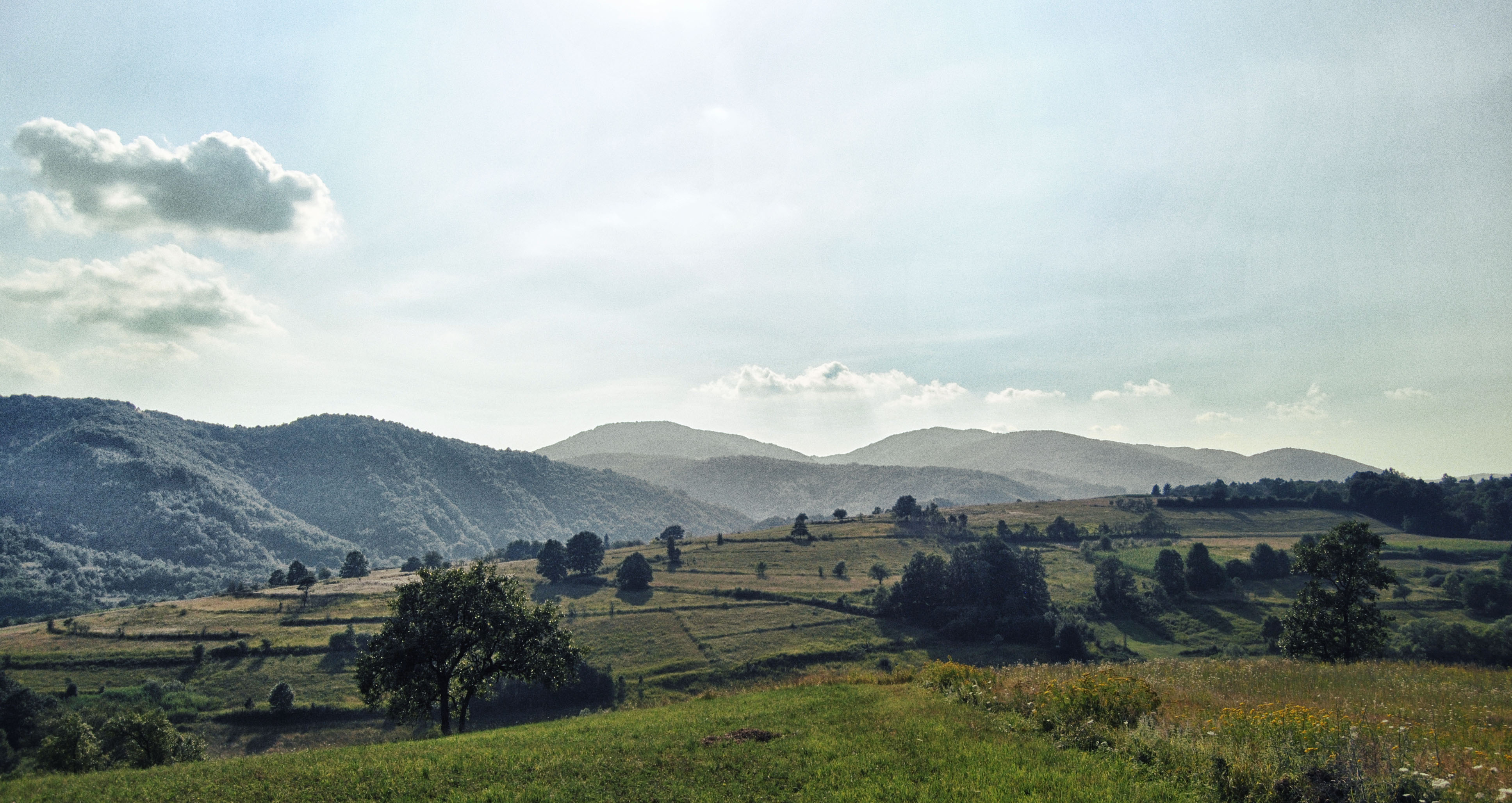 Zavidince, Srbija